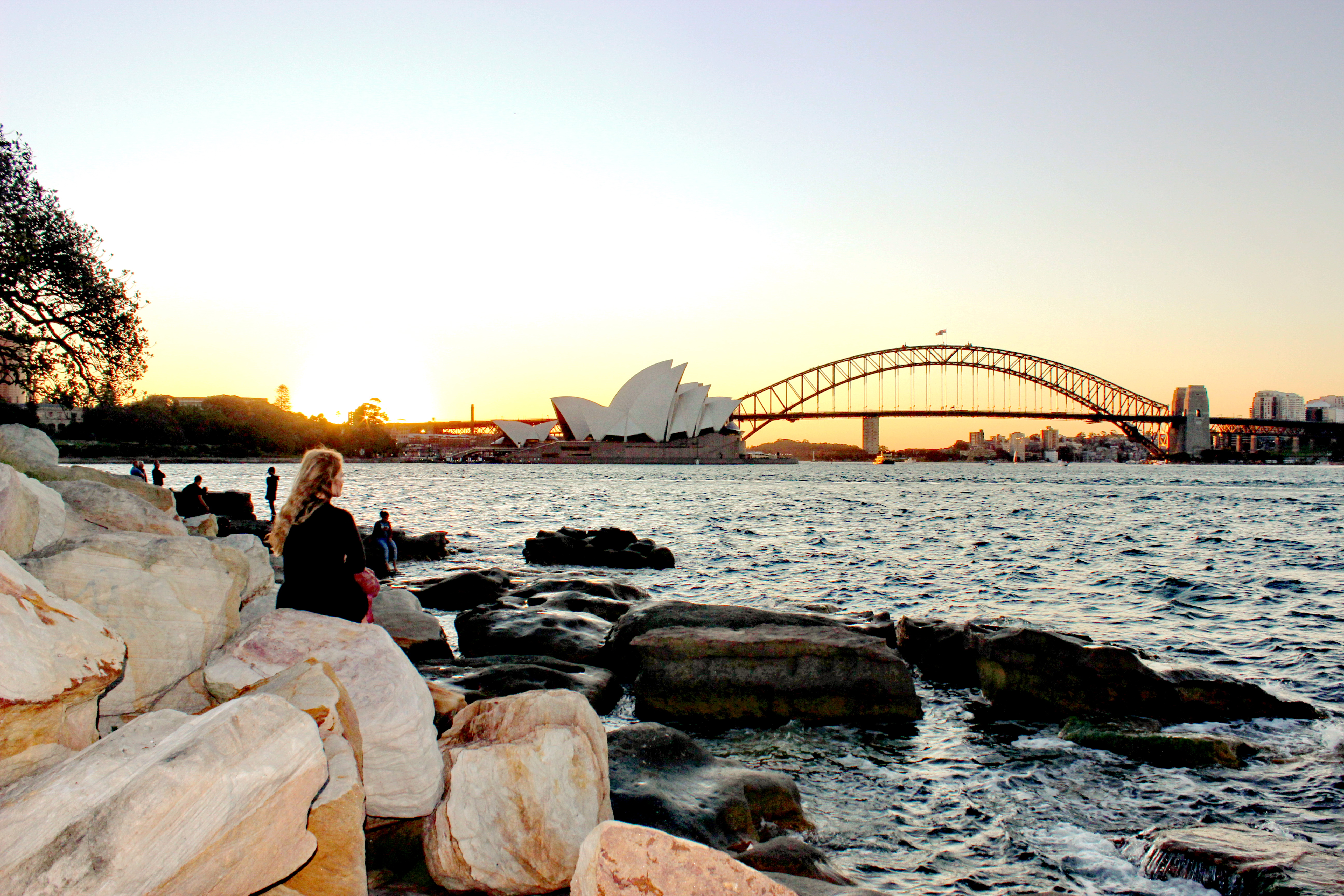 Beautiful Sunset at Sydney